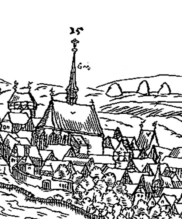 Church of Saint Peter in Louny in 1602